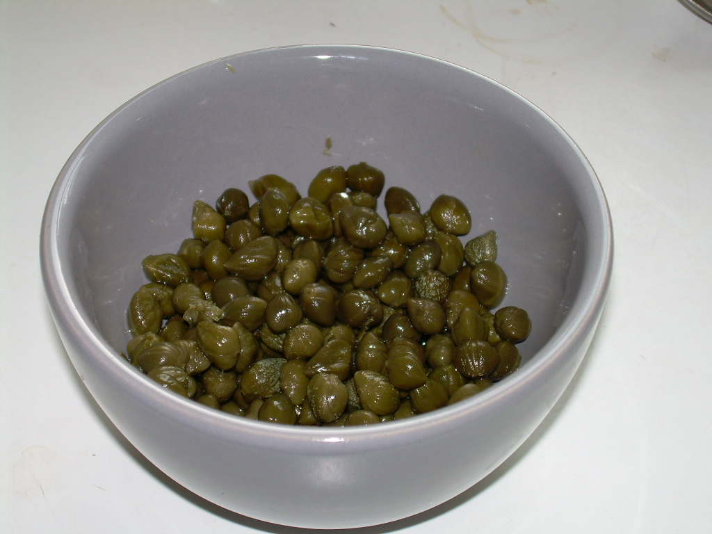 Photo of pickled capers